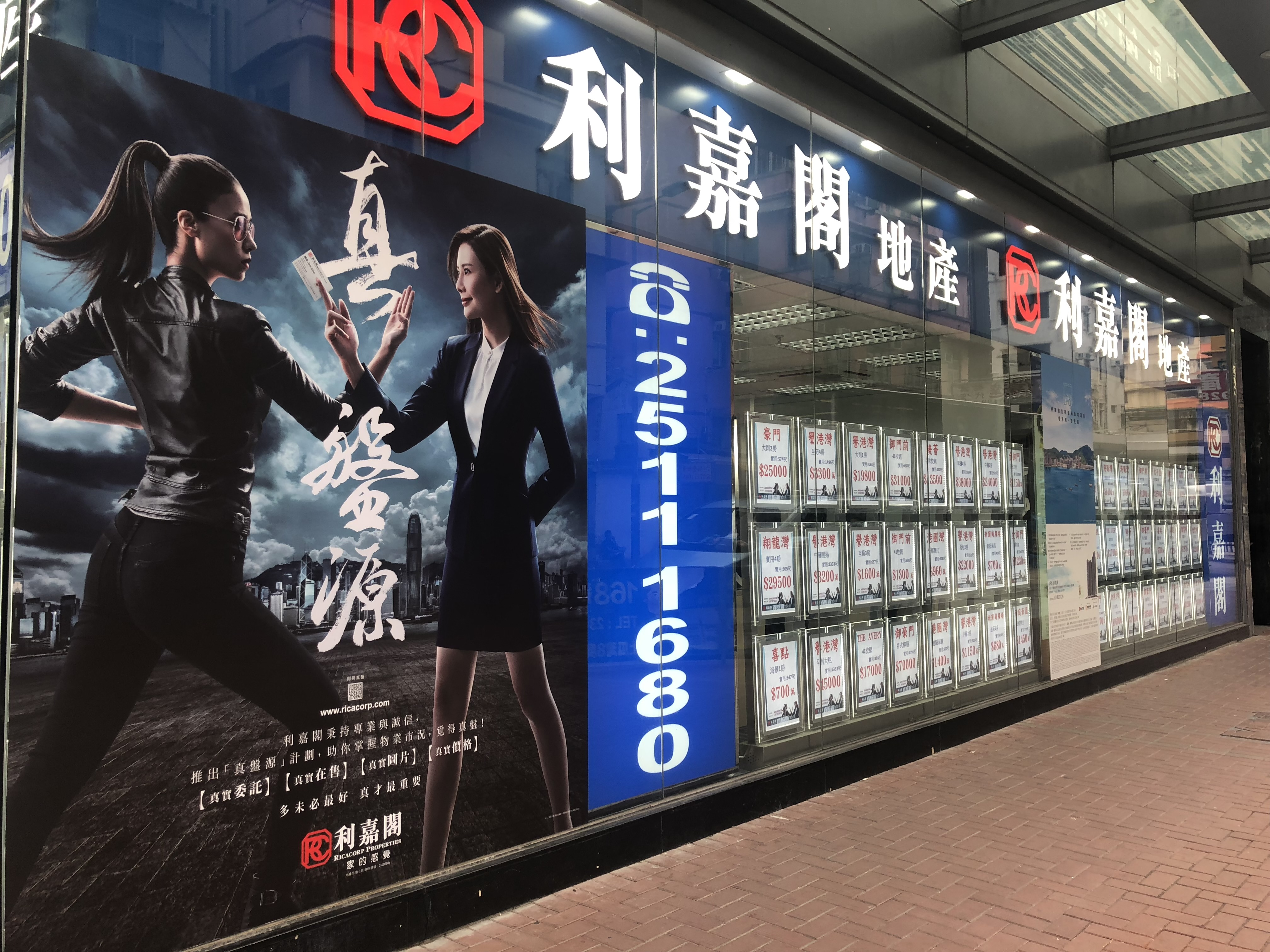 Ricacorp Properties branch in 123 Pak Tai St, Ma Tau Chung